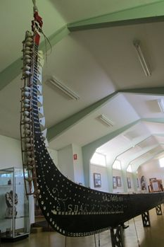 Polynesian war canoe, the largest of the exhibits held in the South Sea Islands Museum in Cooranbong, New South Wales